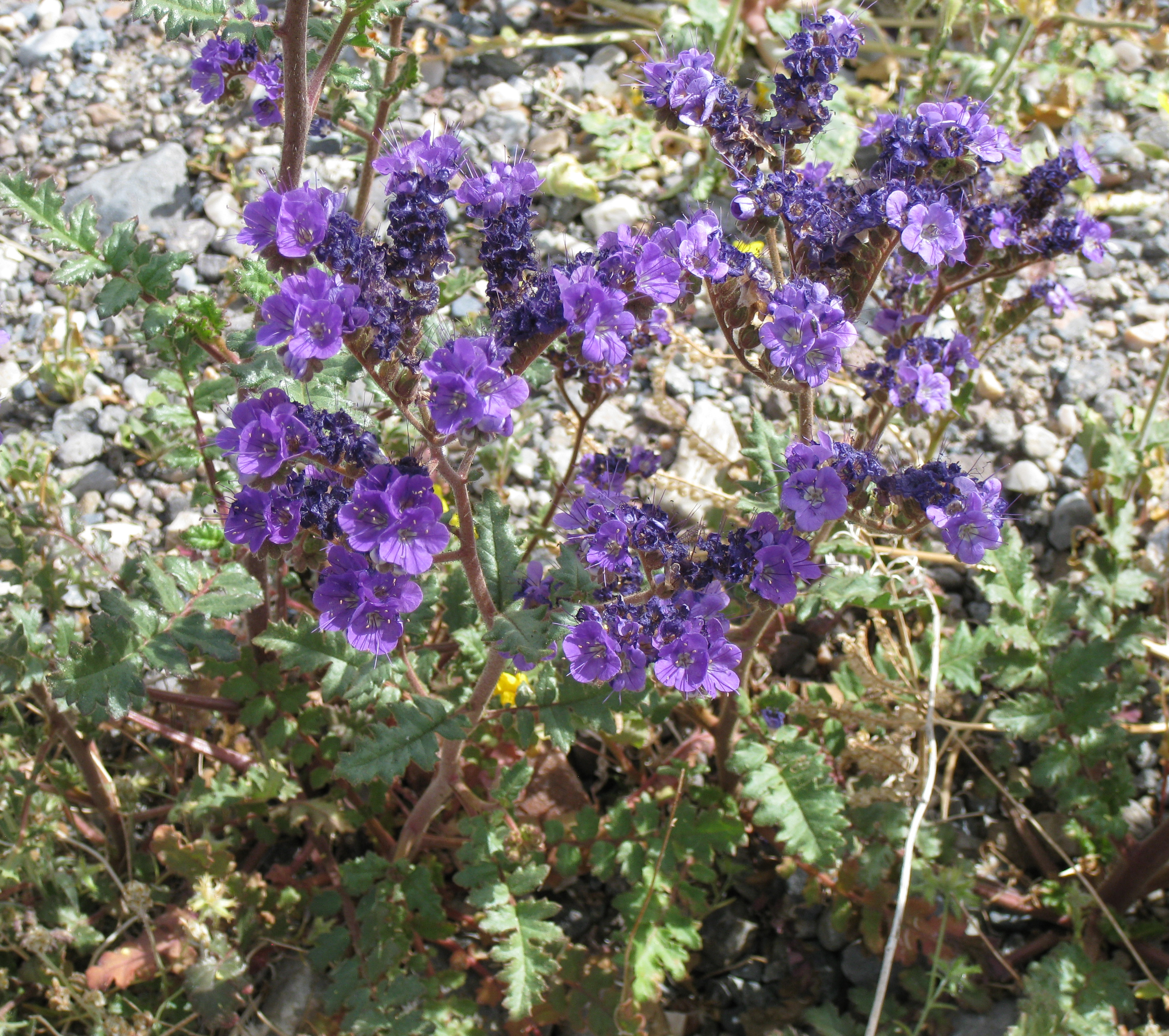 Notch-leaf-phacelia (Phacelia crenulata), clump of plants flowering in the 2016 Death Valley superbloom. Altitude 2,800 ft (850 m), along Rt 190 north of Towne Pass.